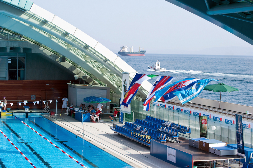 Kantrida Swimming Pools